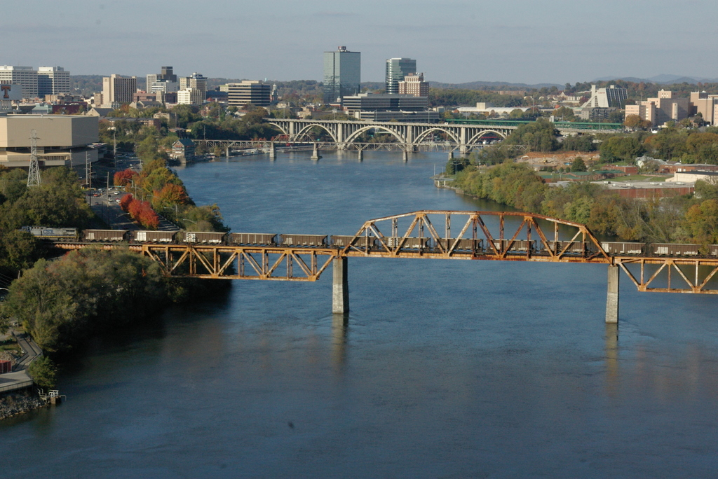 October 24, 2006 - from south Knox river bluffs